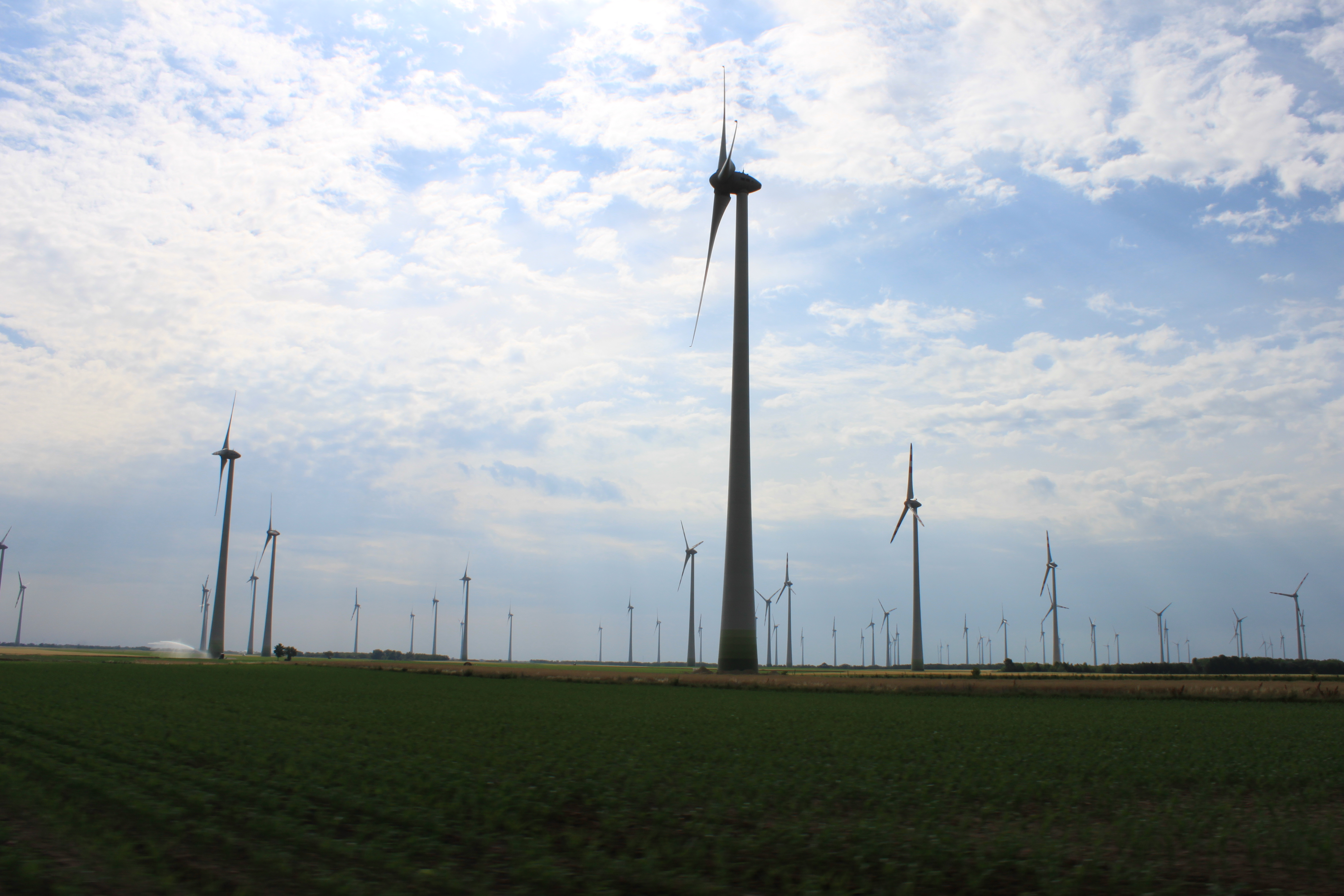 Wind farm project Andau/Halbturn; Austria, view to the east.